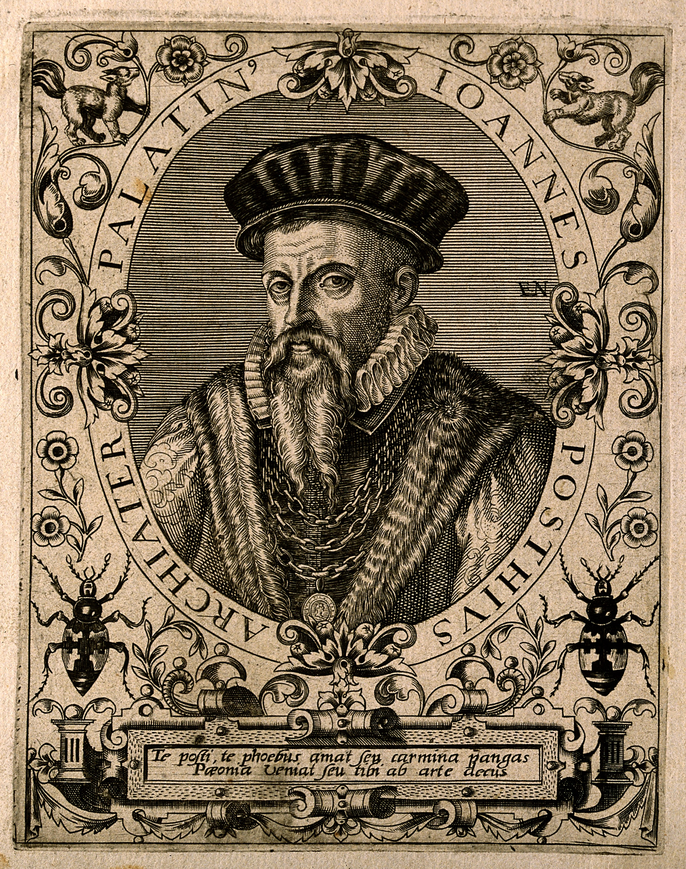 Joannes Posthius. Line engraving by [E. N.], 1645. Iconographic Collections Keywords: portrait prints; engravings; Johannes Posthius